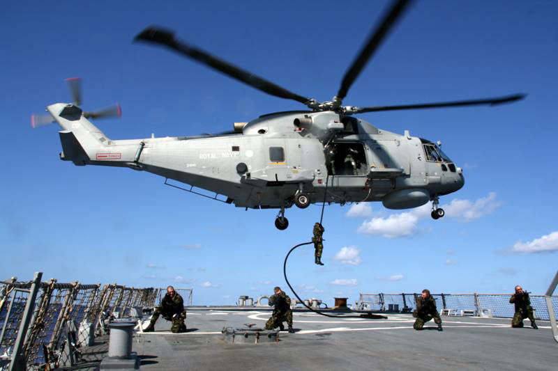 A visit, board, search and seizure team from the Royal Navy frigate HMS Monmouth (F235) performs a fast-rope insertion on the flight deck of the U.S. Navy guided missile destroyer USS Fitzgerald (DDG-62) via Monmouth´s AgustaWestland EH-101 Merlin HM1 helicopter from 829 Naval Air Squadron while at sea on 8 September 2007.